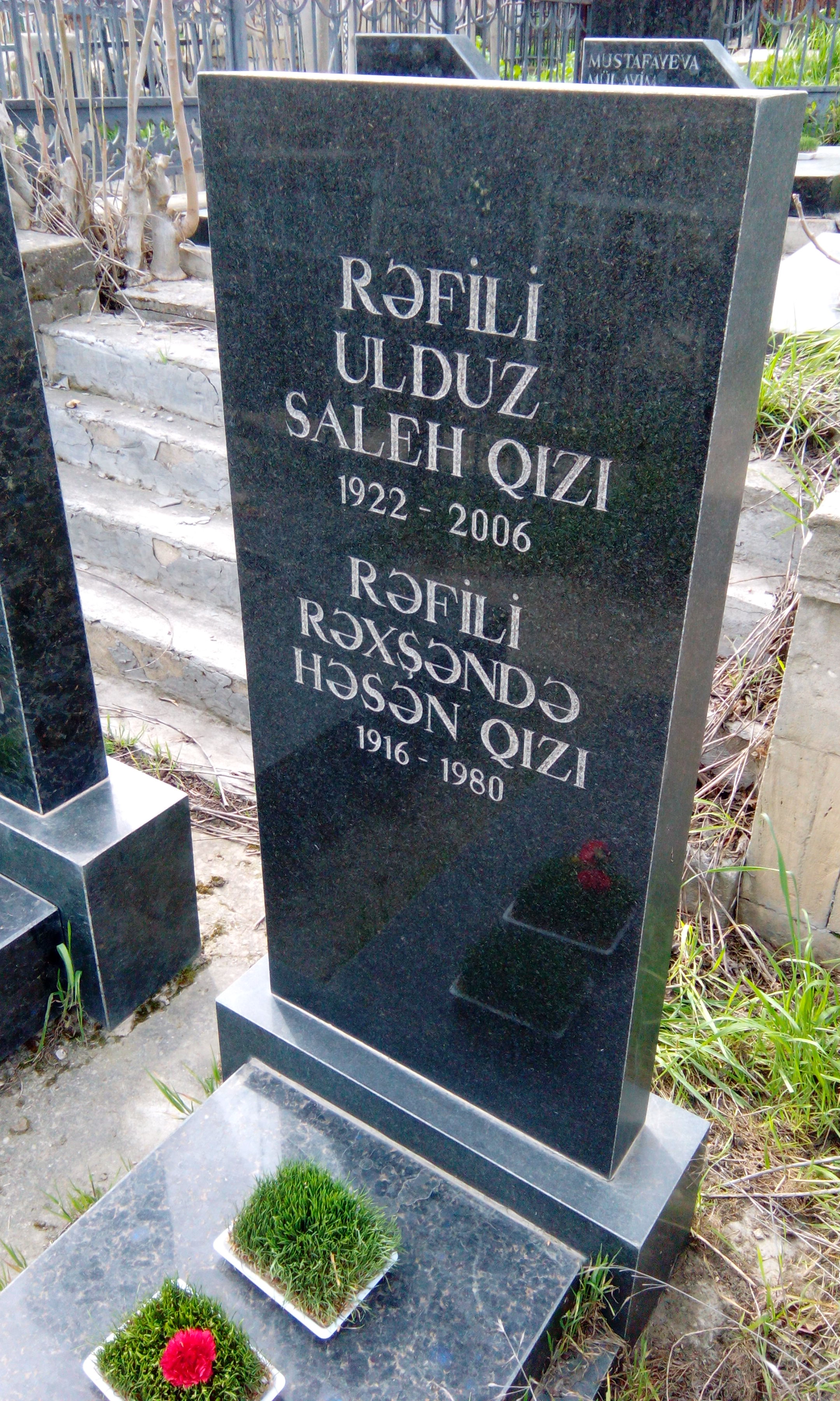 Grave of Ulduz Rafily in Baku, Azerbaijan.